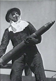 AWM caption : "MELBOURNE, VIC. 1942-12-31. A CREW MEMBER OF A FREE FRENCH GUNBOAT HOLDS A 4.5 ANTI AIRCRAFT SHELL DURING GUNNERY PRACTICE." Comment : the shell weighs 55 lb, the complete round weighs 87 lb. This shows the fixed ammunition in early use; from 1944 separate ammunition was introduced to reduce the load on the gunners.